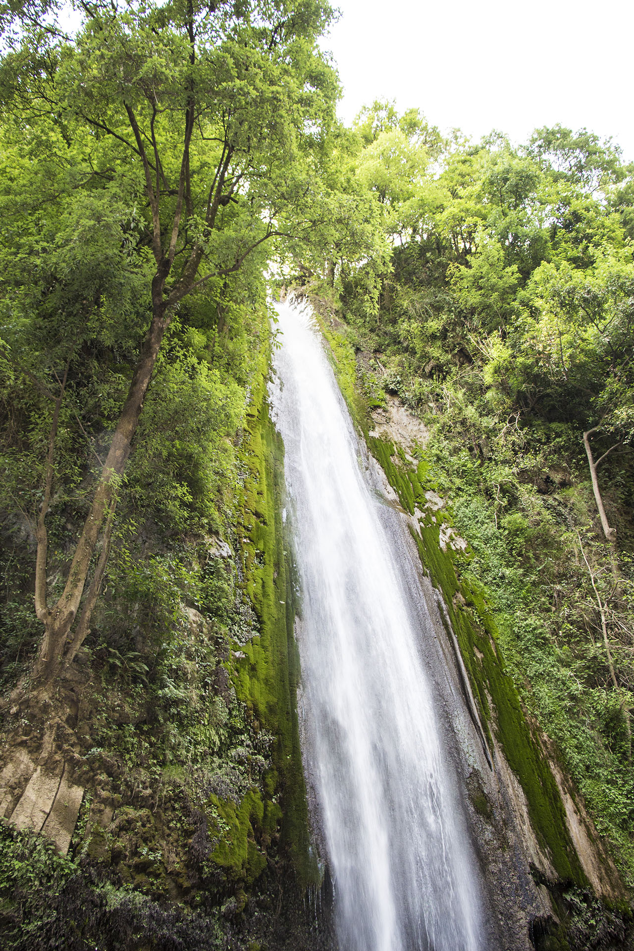 A beautiful natural waterfall near Chakrata, Uttarakhand.